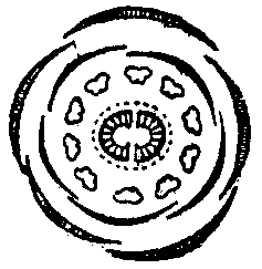 Diagram of a Saxifrage Saxifraga tridactylites